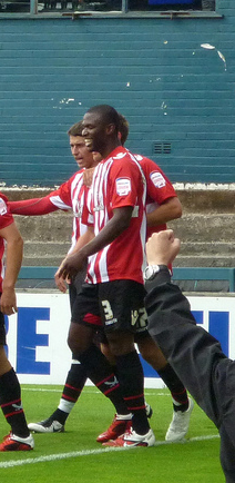 Lecsinel Jean Francois for Sheffield United